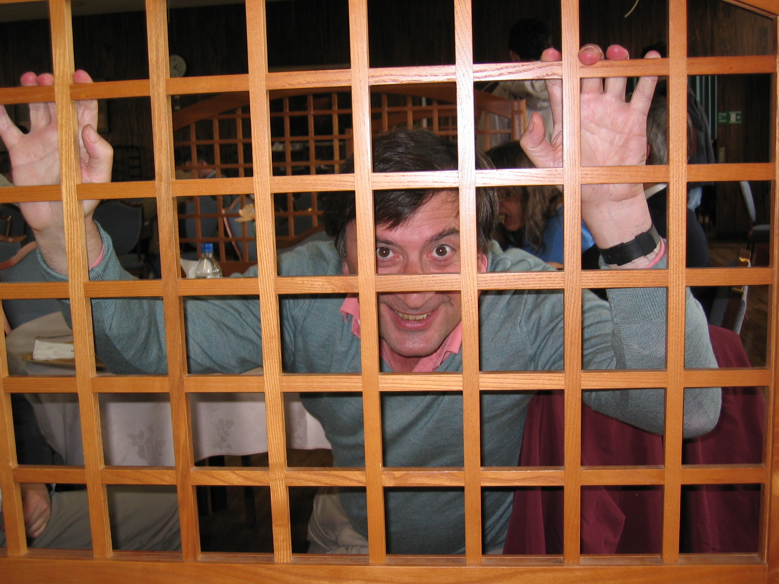 Gordon Plotkin, Mathematical Foundations of Programming Semantics 21, Birmingham, May 2005